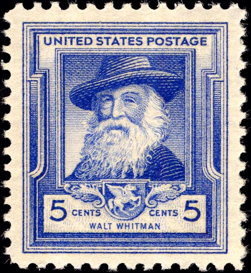 Image Walt Whitman U.S. Commemorative Postage stamp, 5c, 1940 issue